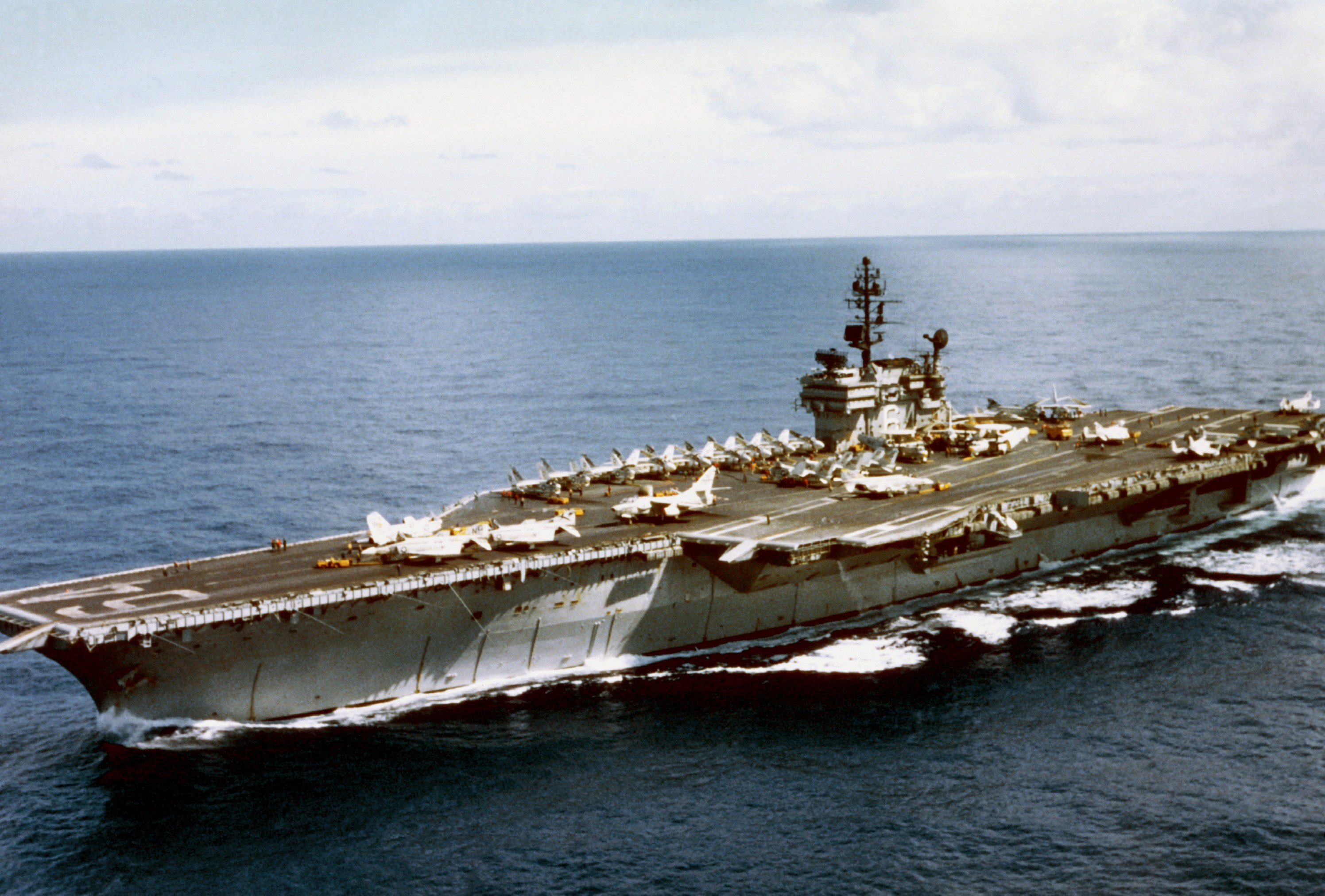 The U.S. Navy aircraft carrier USS Constellation (CVA-64) underway with Carrier Air Wing Nine (CVW-9), 1971-1972.